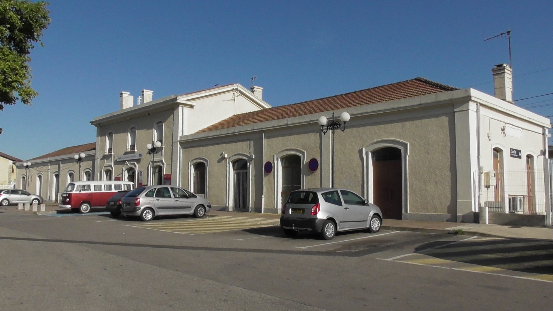 General view of Lézignan-Corbières railway station